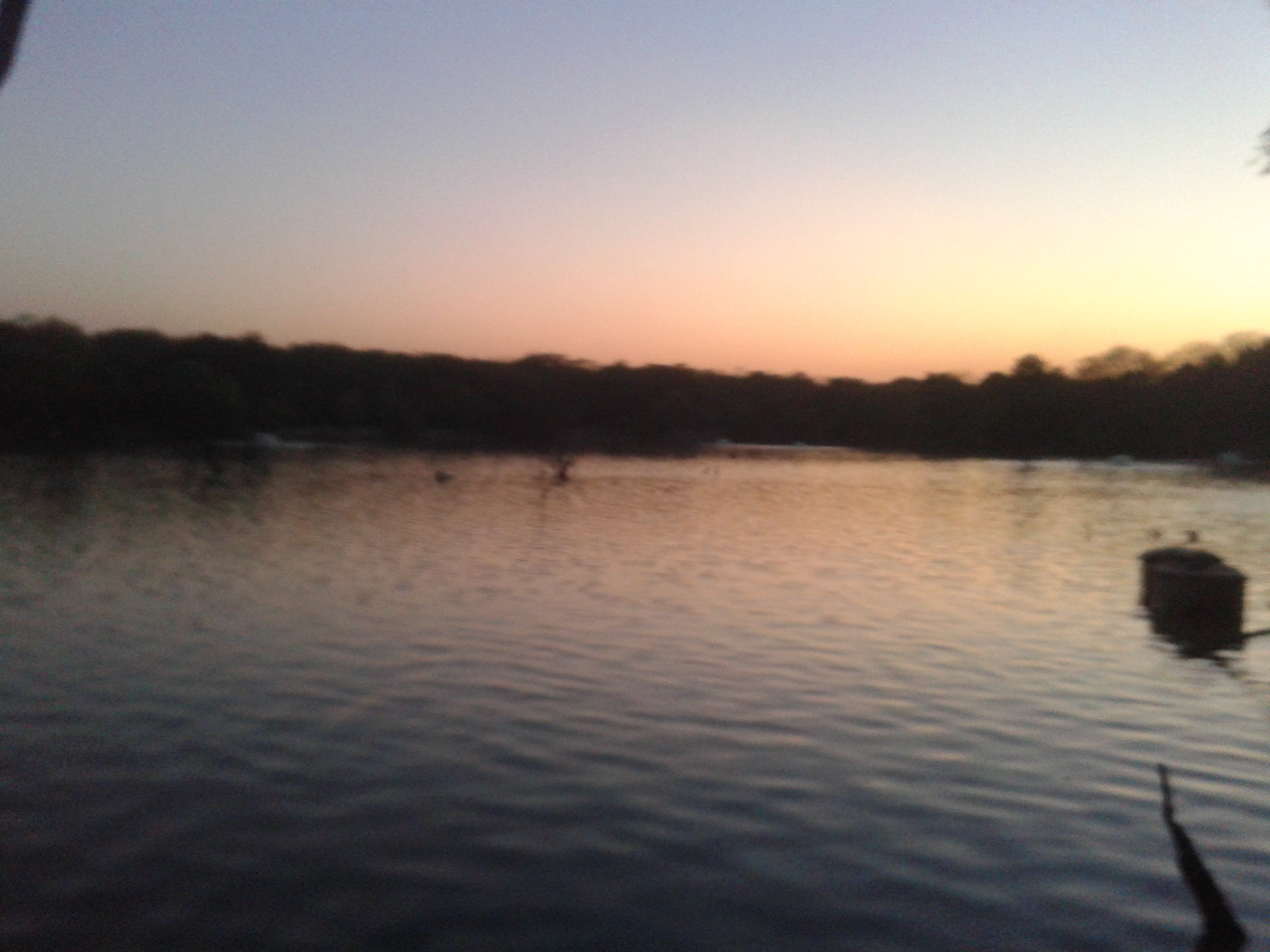 i. The tomb of Ferozshah ii (Firuz Shah Tughlaq). Domed Building to the west of No.1 iii. Dalan between 1&2 iv. Domed Building & its court to the south of No. 3, v. Dalans and all ruined Buildings to the north of no. 1 and existing up to No.10 vi. Five Chhatris to the case of No. 1& No.5 vii. Old Gate to the north of No.6 viii. Three Chhatris to the north-west of No.7 ix. Ruined courtyard and its Dalans with the Domed building to the north-west to the No.8 x. Old wall running east from No.4 xi. 2.23 Acres of land surrounding the above monuments and bounded on the North by house of Chhange and Mehra Chand sons of Hansram and house of Uderam, son of Kusha South Ghairmunkan Resta East By village site belonging to village community house of Nots Zadar sons of Jai Singh Chhamar and field Nos. 338 & 331 belonging to Naider and others West By field no. 185 belonging to Udaram, son of Kusal Jat and field No. 186 belonging to Jagins and Sajawal Rajput, No. 195 Ghairmunkin Johar, common of Jats and Musalmans and filed no. 196, Ghairmunkin Pall.